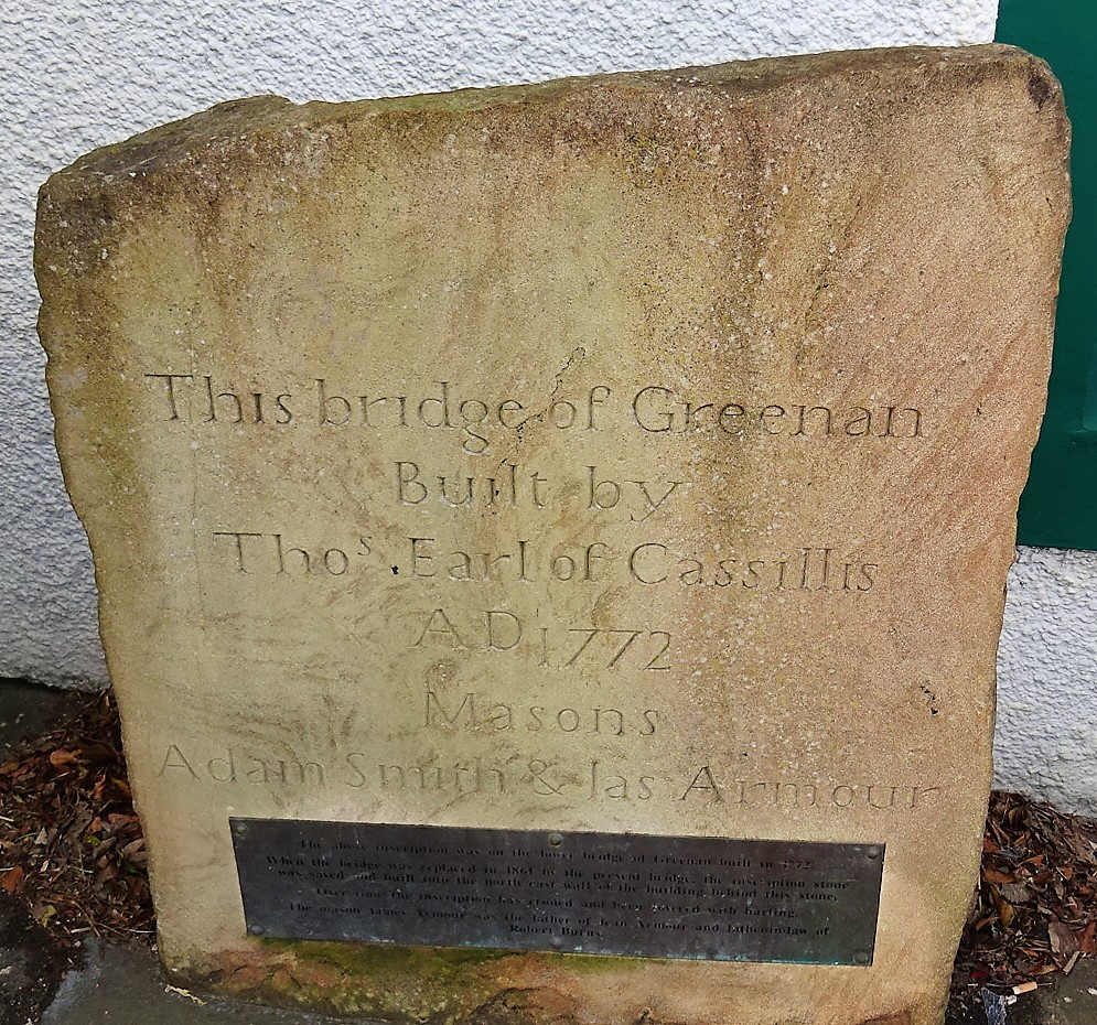 The old Greenan Bridge over the River Doon, Dedication stone with James Armour's name, father-in-law of Robert Burns. The Shaw mentioned was a relative of his wife Mary Smith.